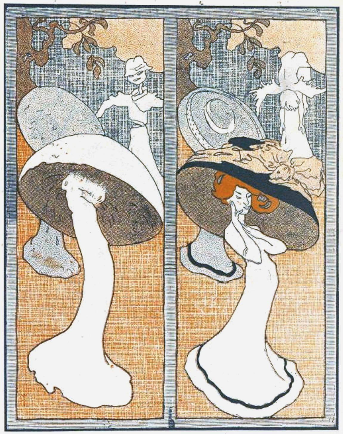 Iluzie cuipercă ("An Optical Illusion"), two-panel cartoon published in Furnica, the Romanian satirical magazine. First panel: Din optică... ("From a mushroom..."). Second panel: ...femeie cu pălărie la modă ("...to a woman with her fashionable hat"). Note: In this issue of Furnica, Theodorescu-Sion is introduced with the pseudonym Teodosion.